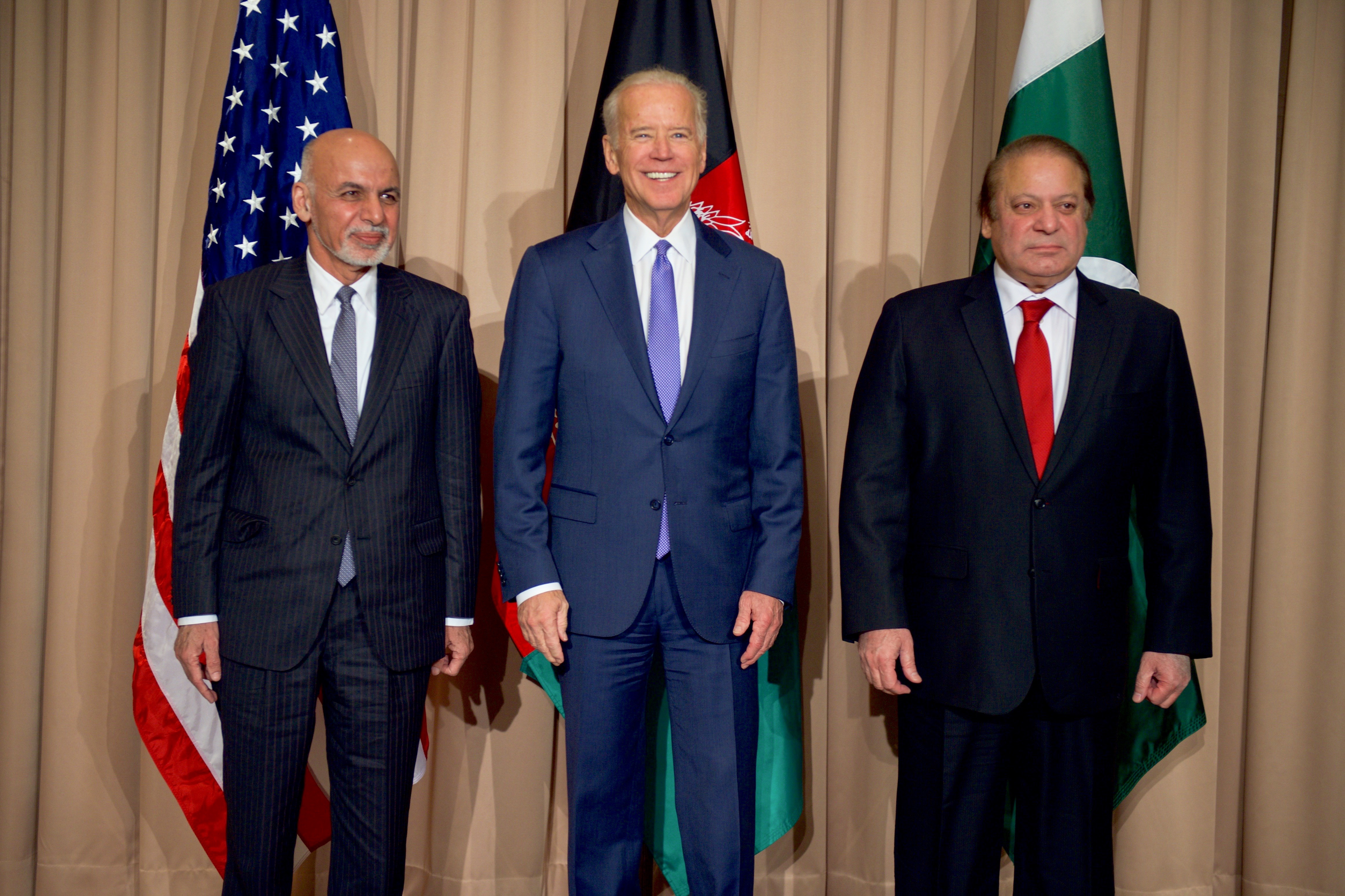 Vice President Joe Biden stands with Afghanistan President Ashram Ghani and Pakistan Prime Minister Nawaz Sharif on January 21, 2016, at the Intercontinental Hotel in Davos, Switzerland, before a bilateral meeting on the sidelines of the World Economic Forum. [State Department Photo/Public Domain]